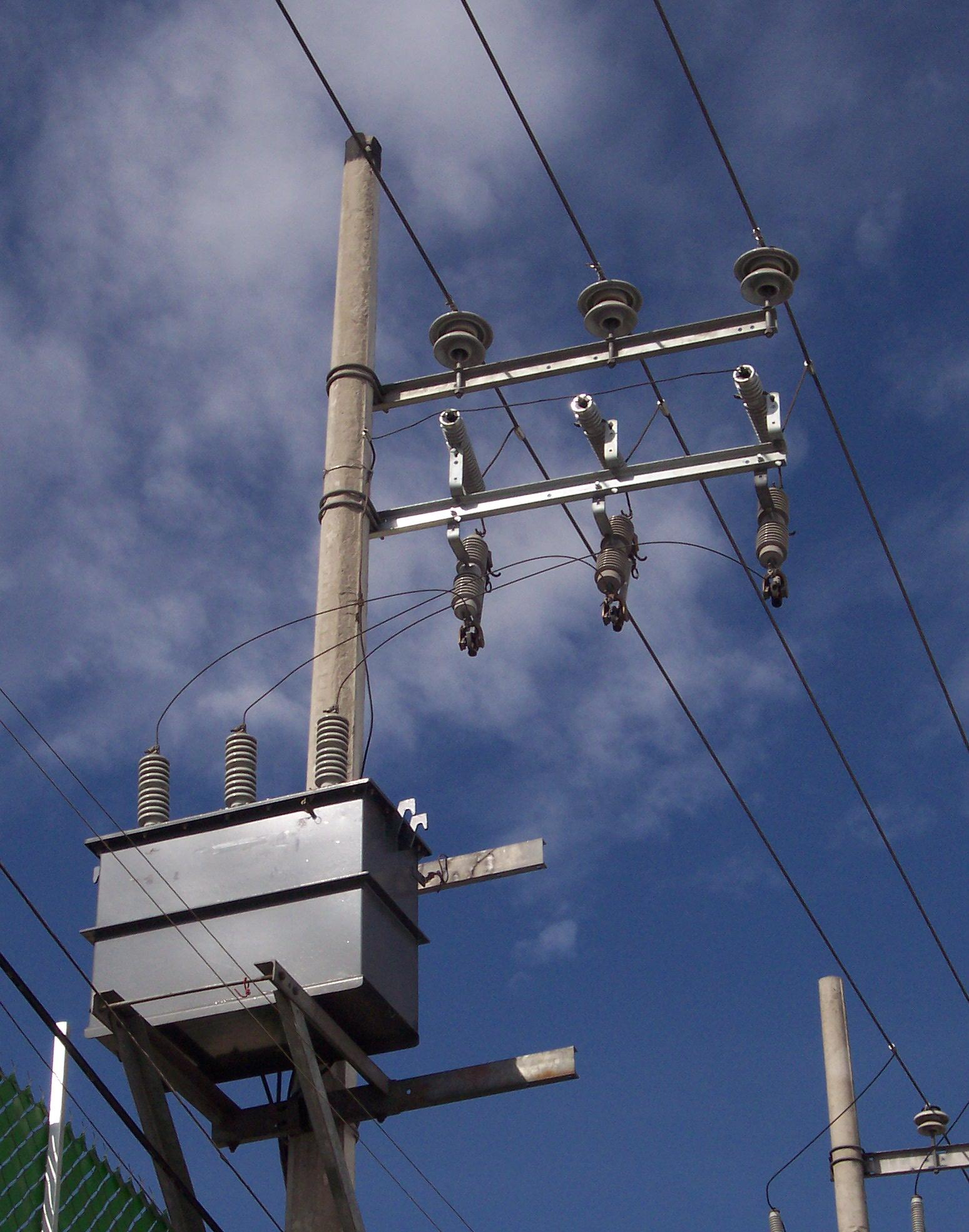 Three-phase pole-mounted power distribution transformer (of type used in Europe, but location unknown). It is connected to the three primary feeder wires at top through fused cutouts (objects hanging from the lower crossarm). The devices on top of the lower crossarm, above the cutouts, are probably lightning arresters